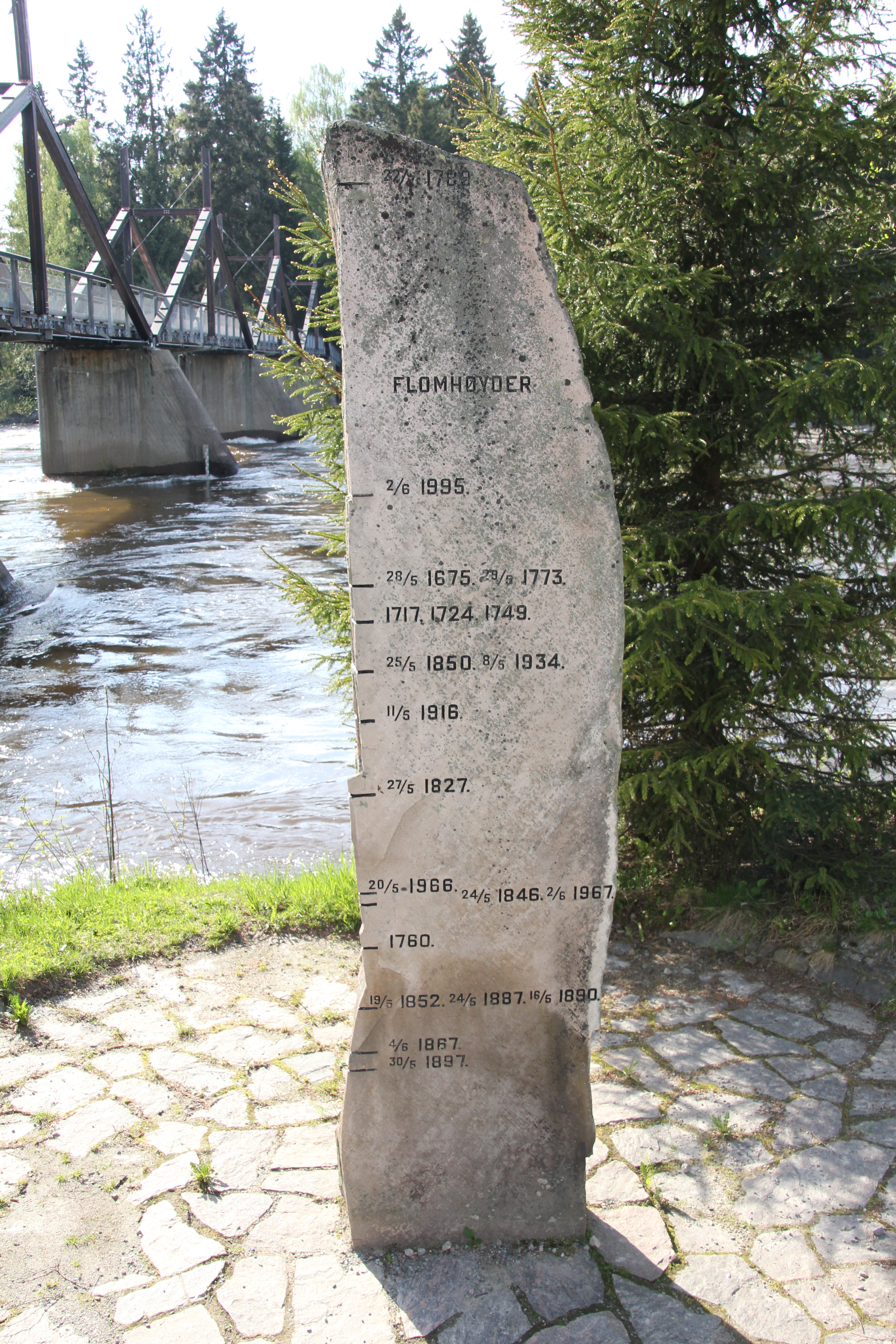 Overflown marks at Glomma River.